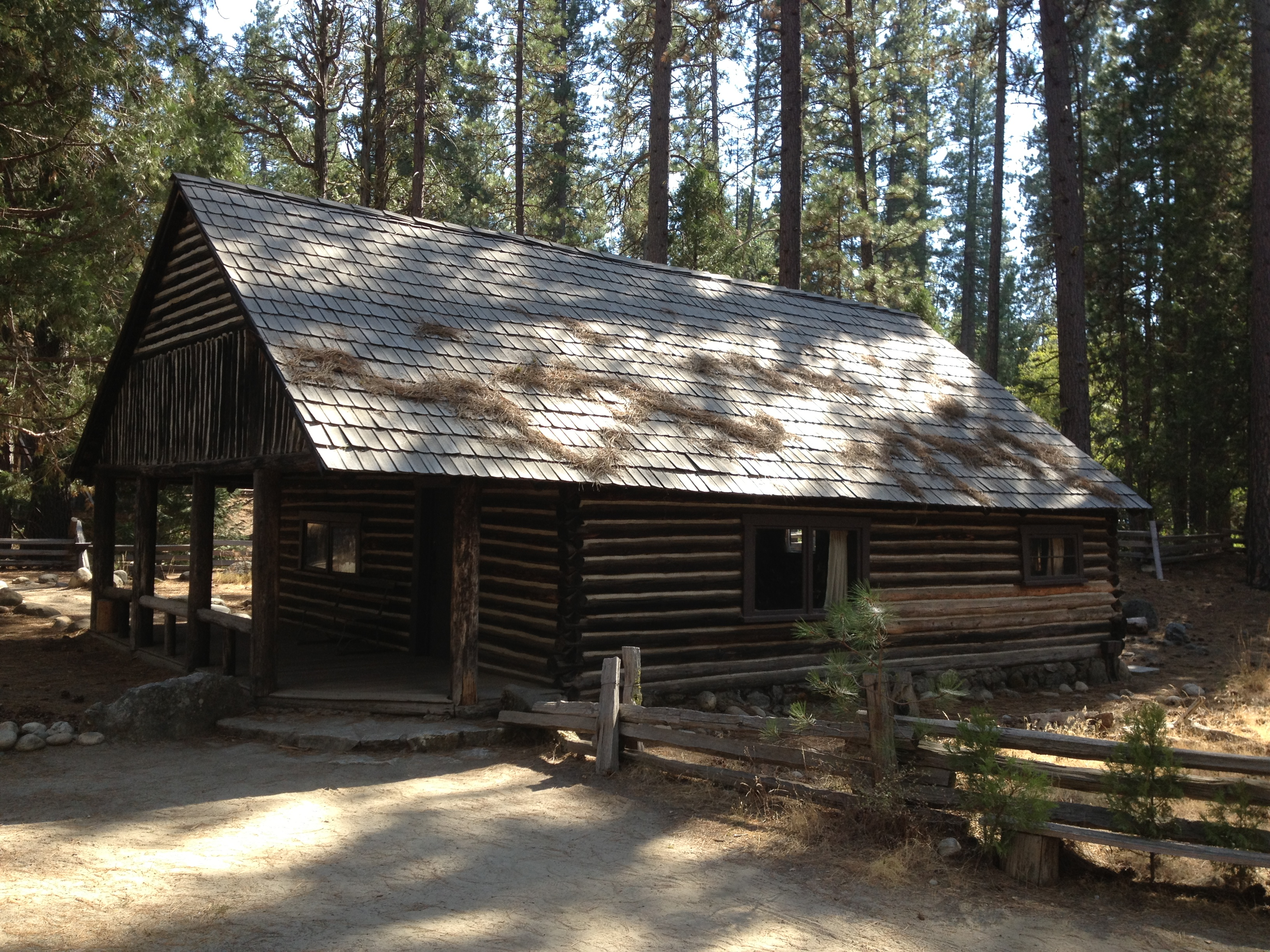 Chris Jorgenson Studio, Pioneer Yosemite Historic Center Yosemite National Park